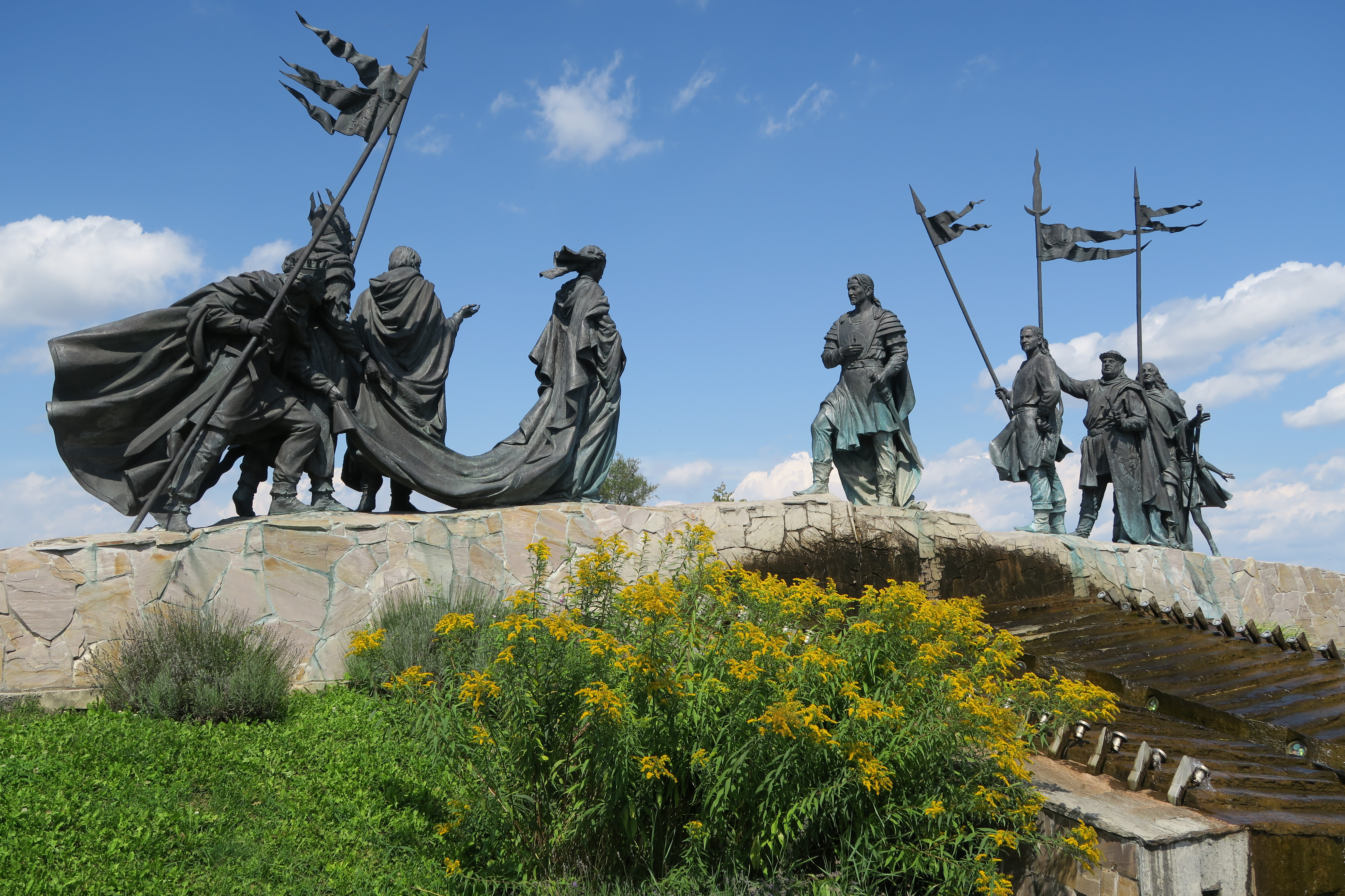 Tulln Nibelungen